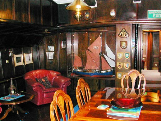 P&O transform Will's Cargo Hold into a mahogany-panelled saloon